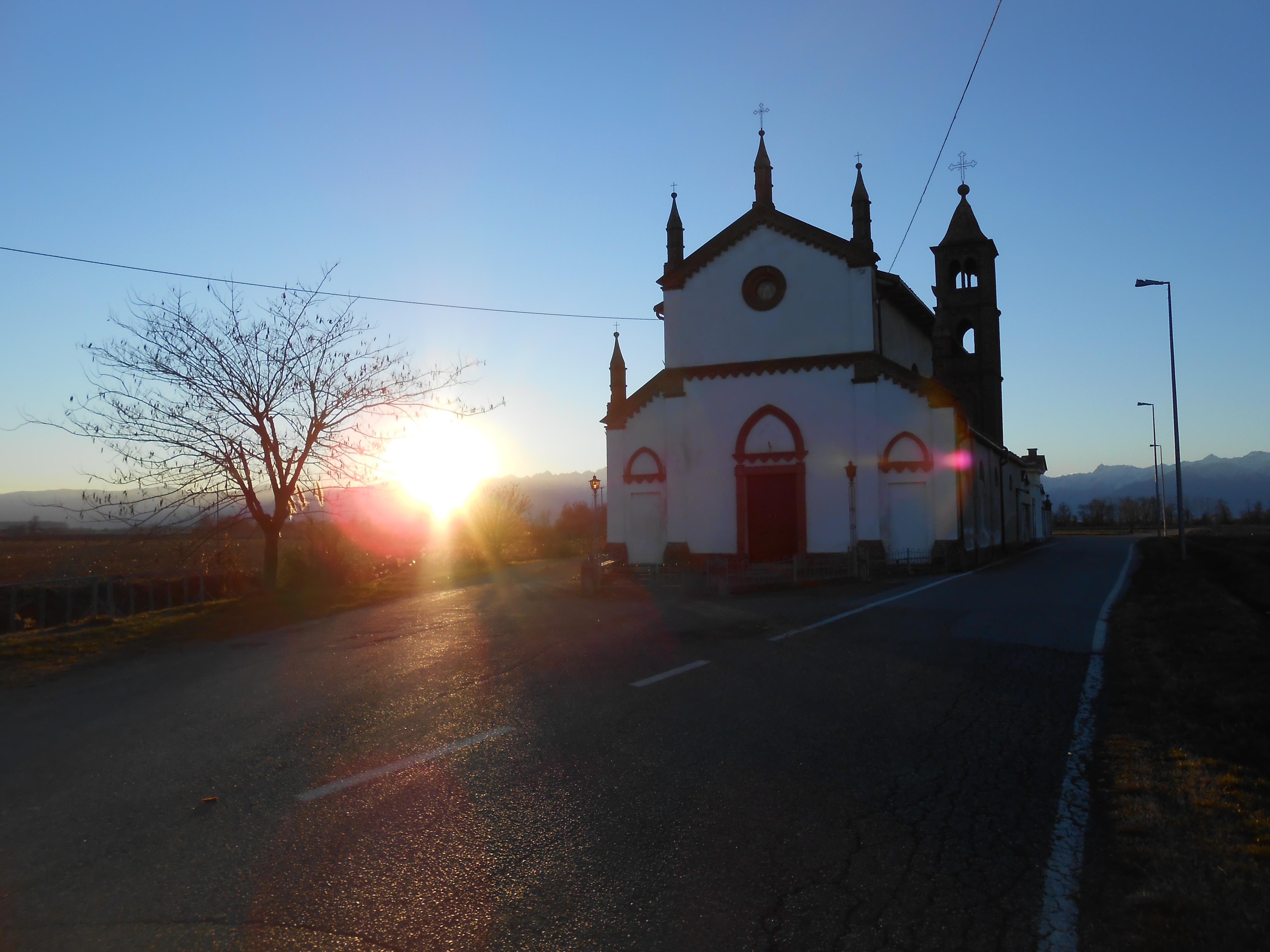 Sanctuary of Madonna del Lago